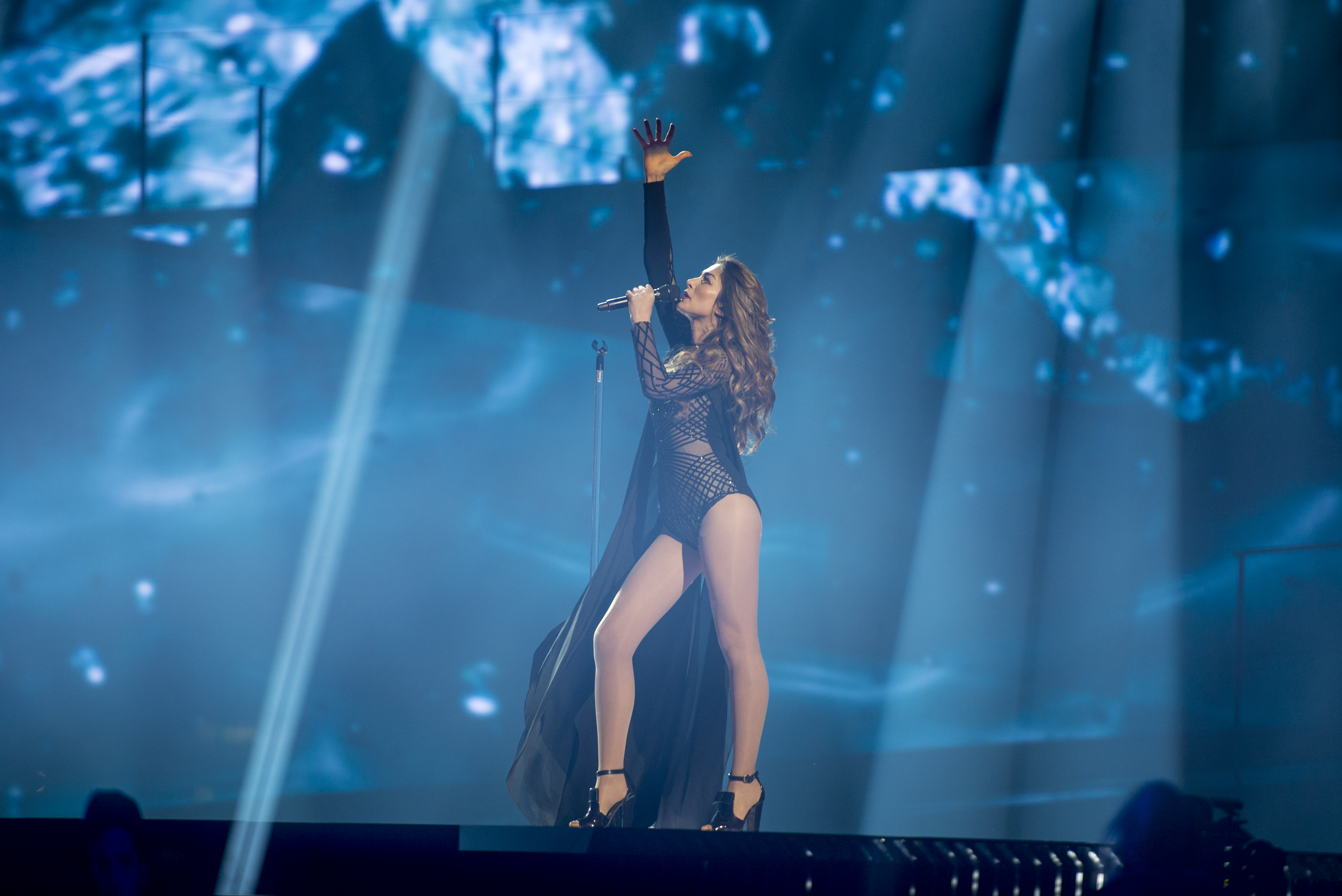 Iveta Mukuchyan representing Armenia with the song "LoveWave" during a rehearsal before the first semi final of the Eurovision Song Contest 2016 in Stockholm. (Help translate this text)